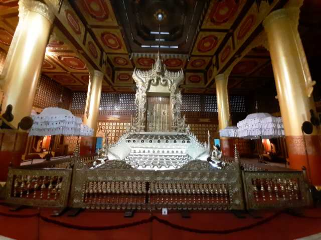 The Lion Throne (also known as Sihasana or Thihathana Palin; Burmese: သီဟသနပလ္လင်) is one of the eight historic thrones used by the Burmese monarchs.